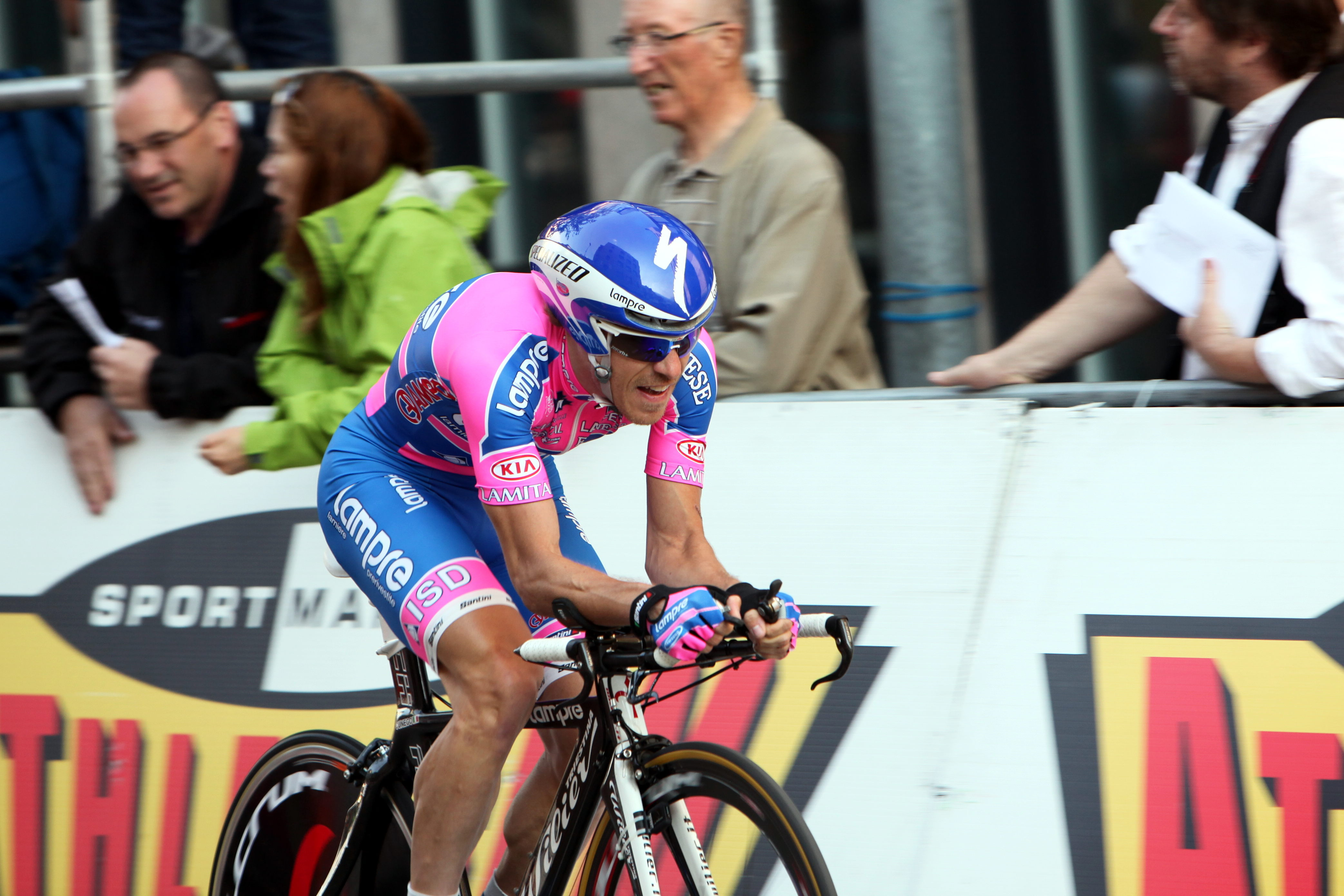 Damiano Cunego at the prologue of the Tour de Romandie 2011